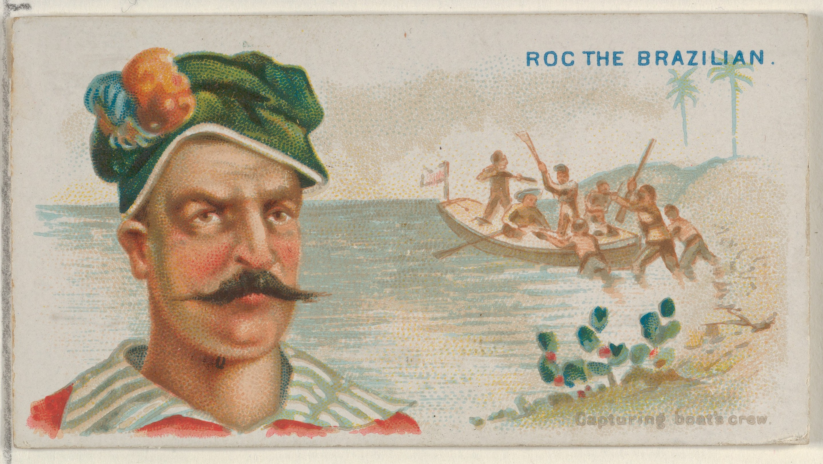 Print; Prints